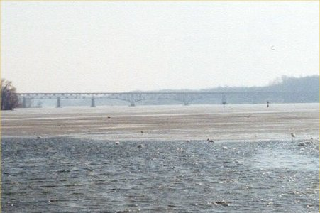 The Irondequoit Bay Bridge as seen from the parking area along New York State Route 404. This image is cropped from the original picture that I took on February 26, 2000 so that emphasis can be given to the bridge.